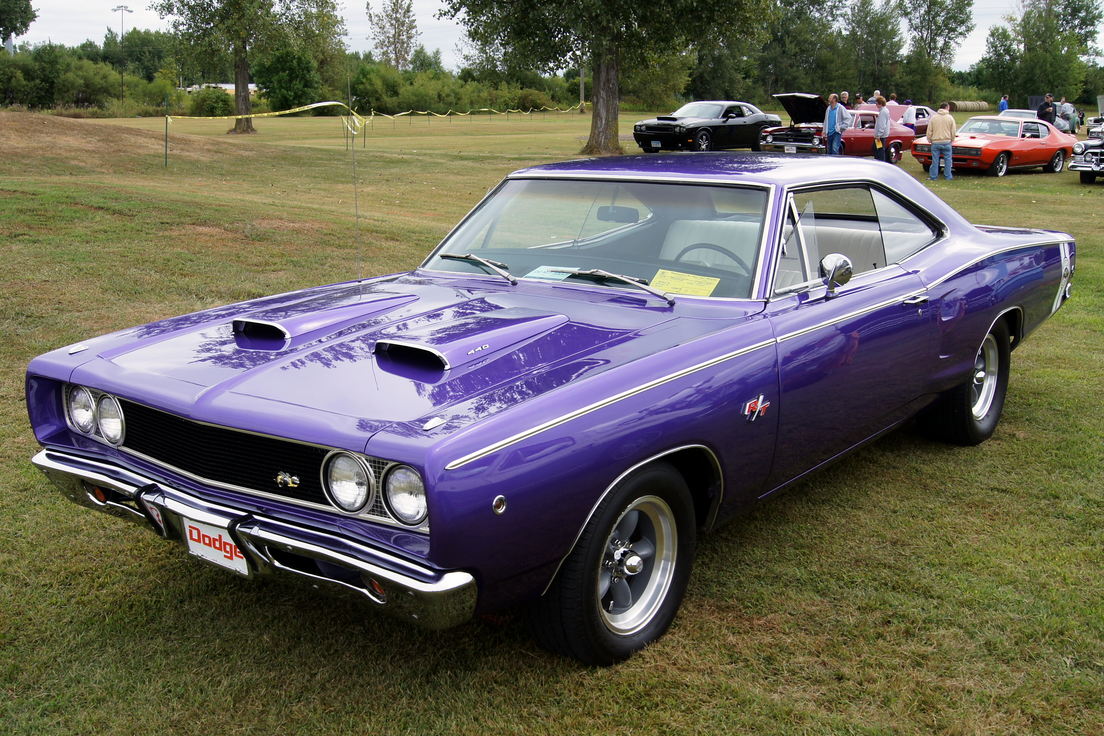 North Star Chapter Studebaker Drivers Club 13th Annual Labor Day Car Show September 2, 2013 Blacksmith Lounge Hugo, MN